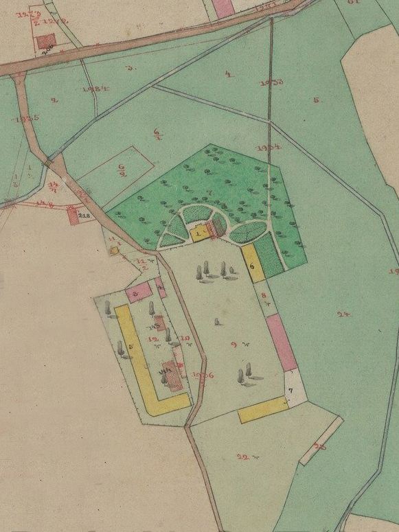 Niebocko manor house on a map from 1851